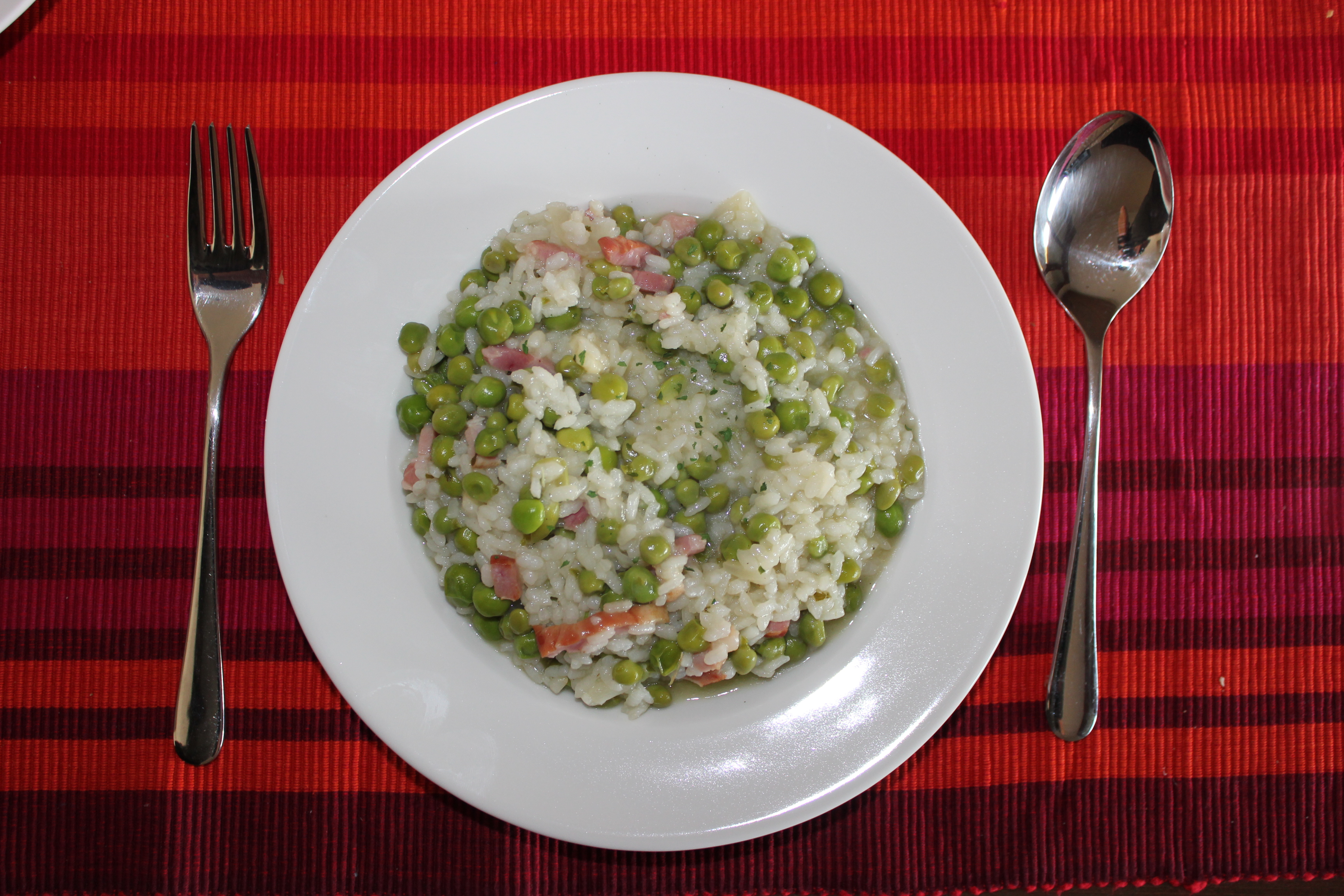 Risi e bisi